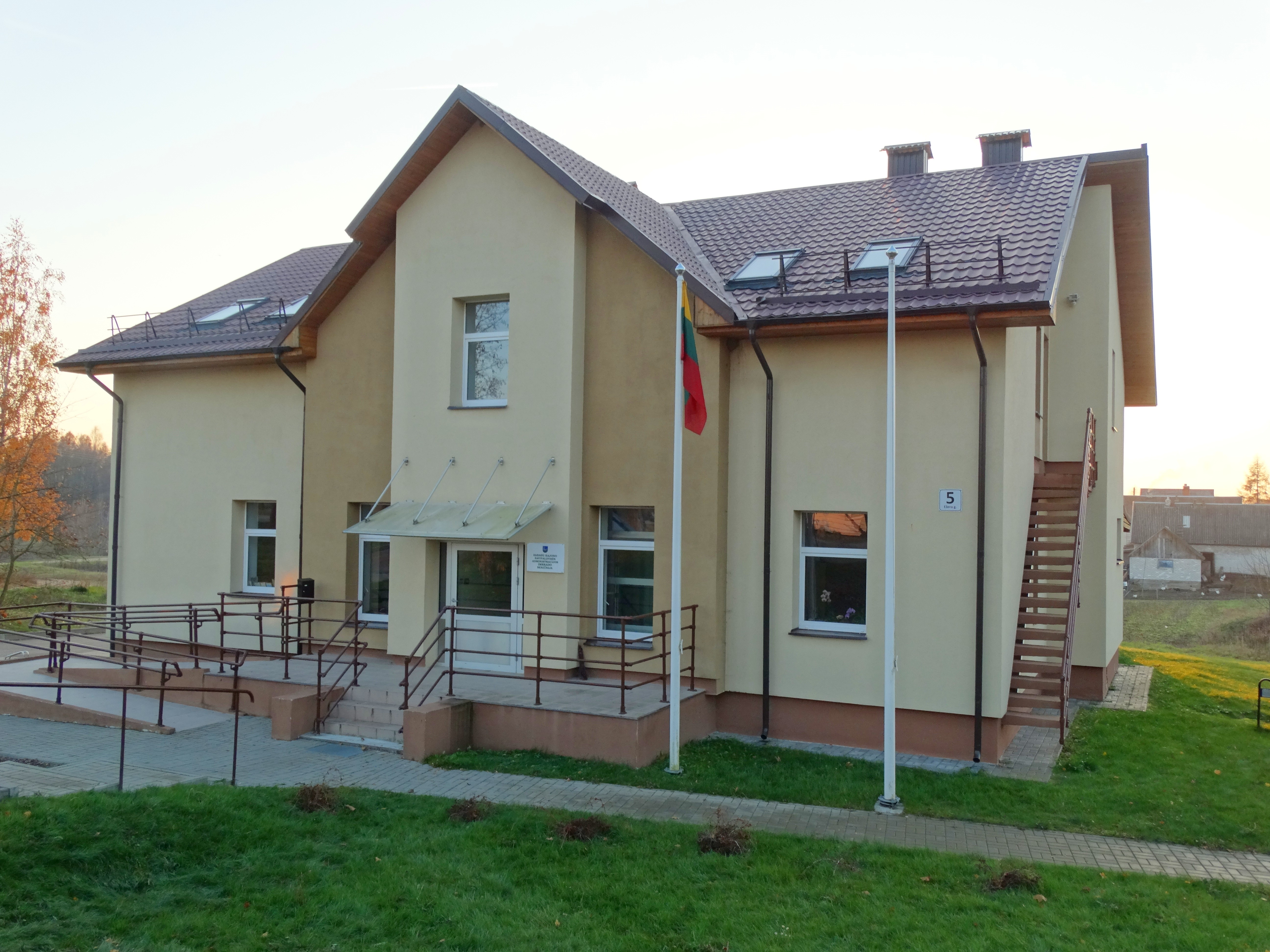 Imbradas, eldership, Zarasai district, Lithuania